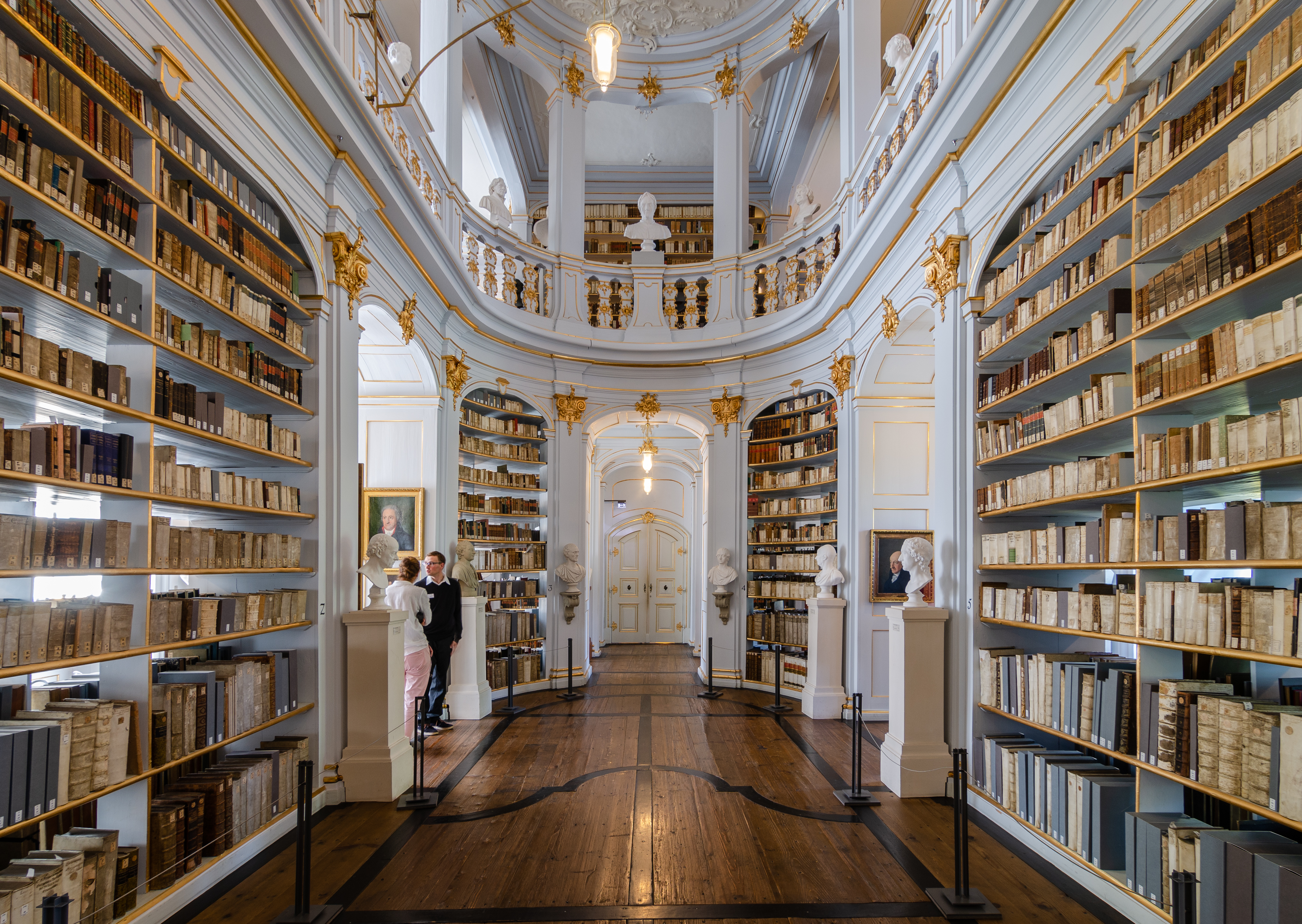 Weimar (Thuringia, Germany) – Duchess Anna Amalia Library – main building in the Green Palace – Rococo hall – central aisle